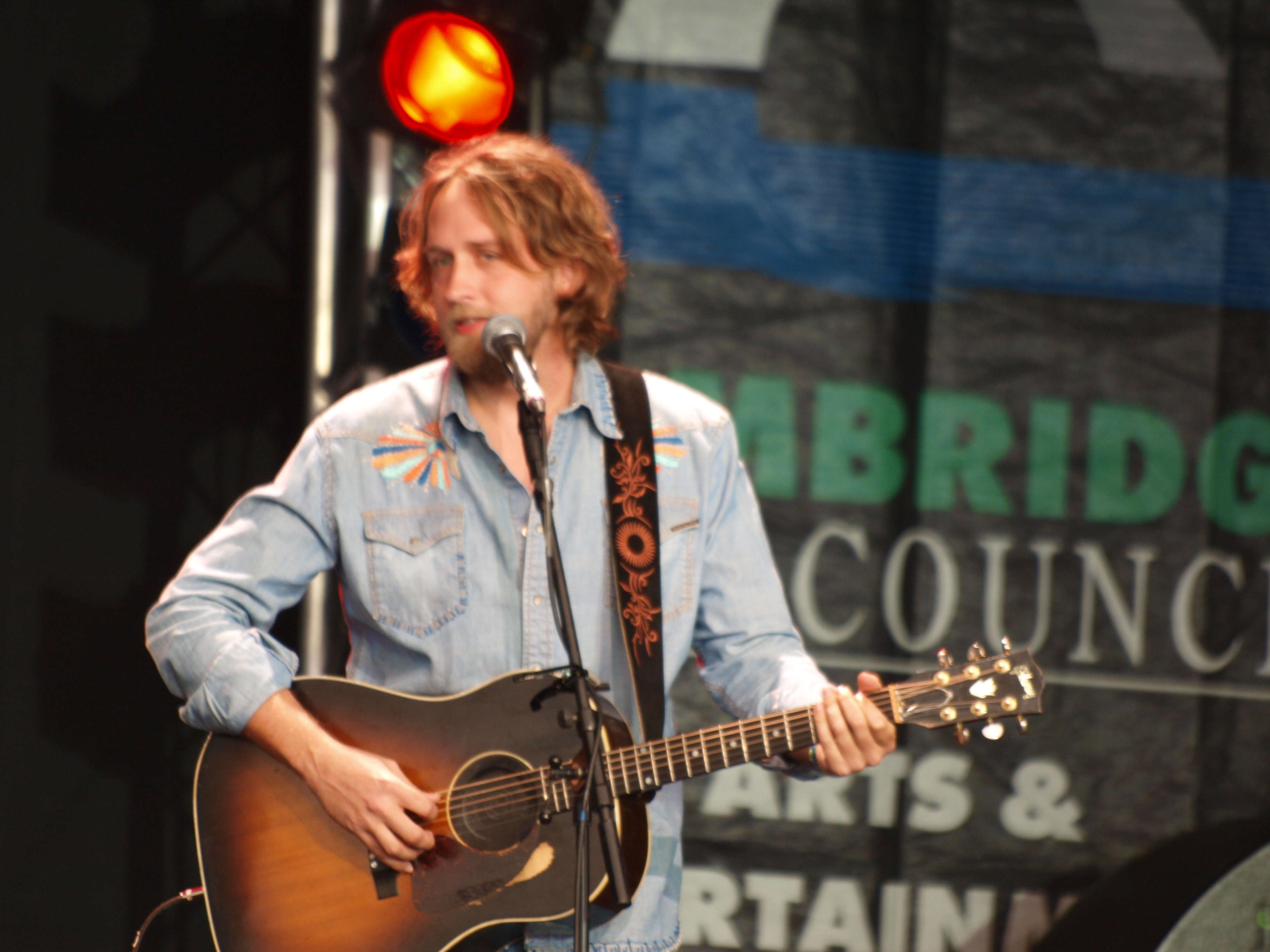 These were taken at the festival which took place in Cambridge, England Photo taken over the weekend 30th July to 2nd August, 2009. This is American musician Hayes Carll.